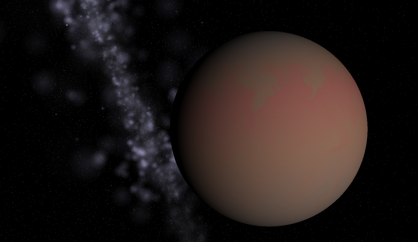 Artists Concept for planet 61 vir /c